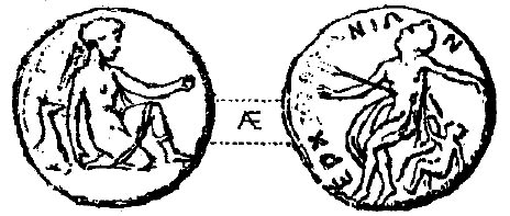 Jbverse - Artemis, reverse - Callisto and her son Arkas